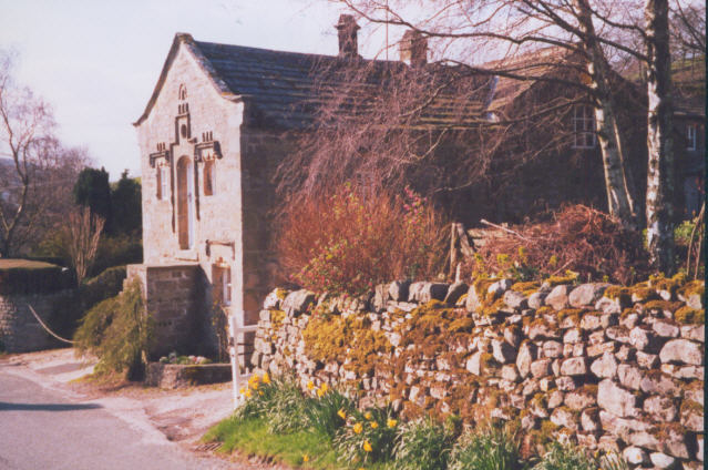 The curiously named Mock Beggar Hall, Appletreewick